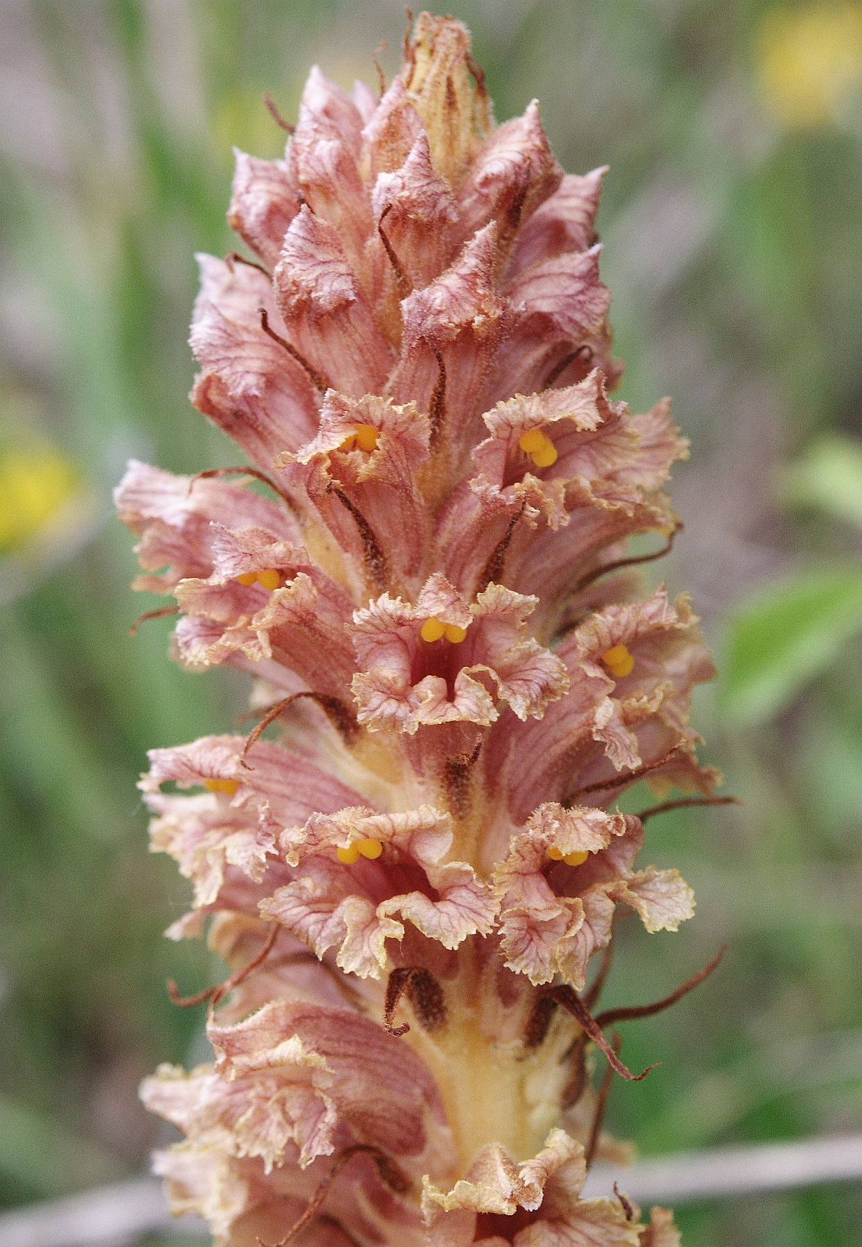 Orobanche elatior, Neckar-Odenwald, Germany